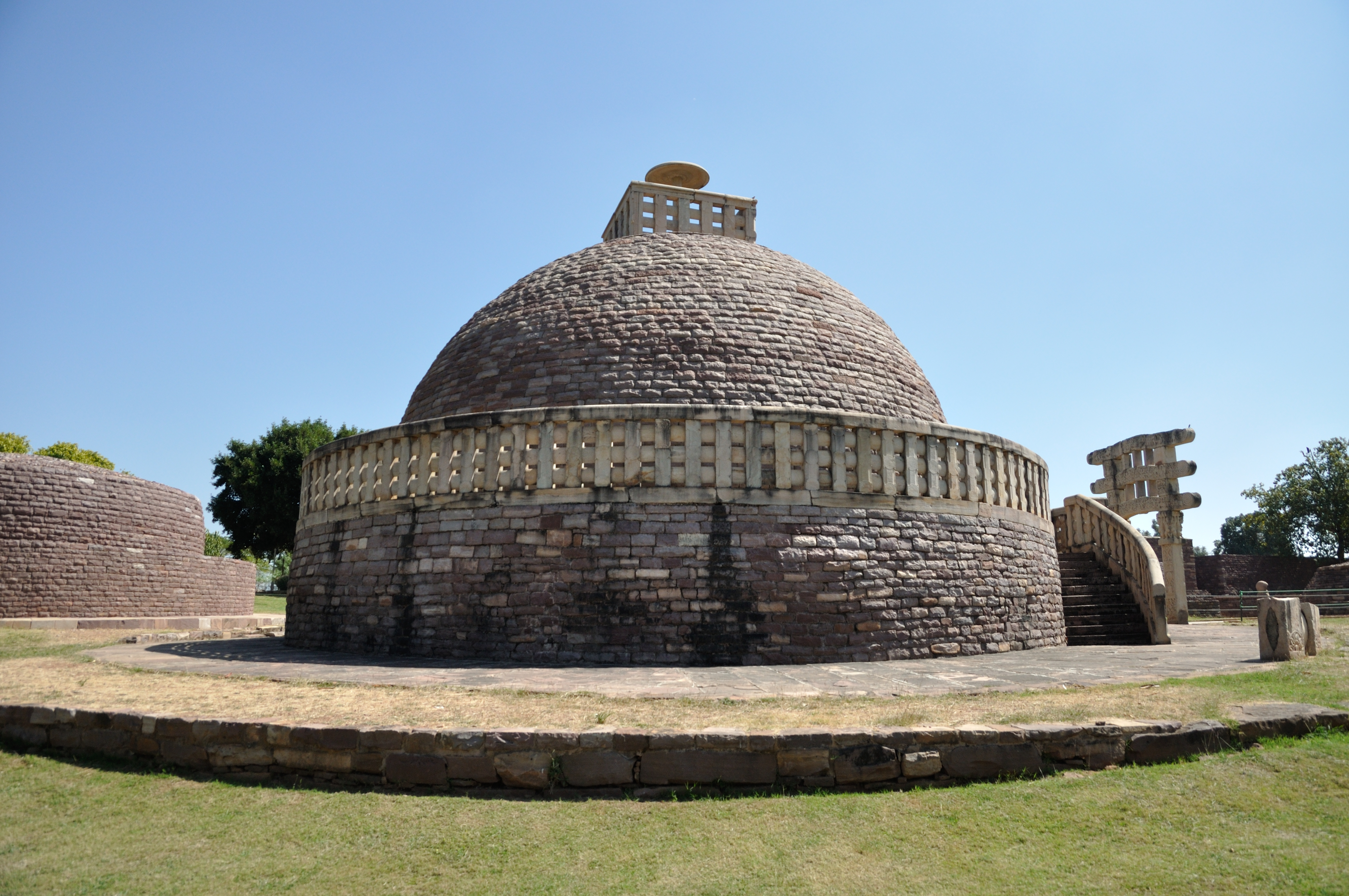 Buddhist monument at the Sanchi Hill, Raisen district of the state of Madhya Pradesh, India.